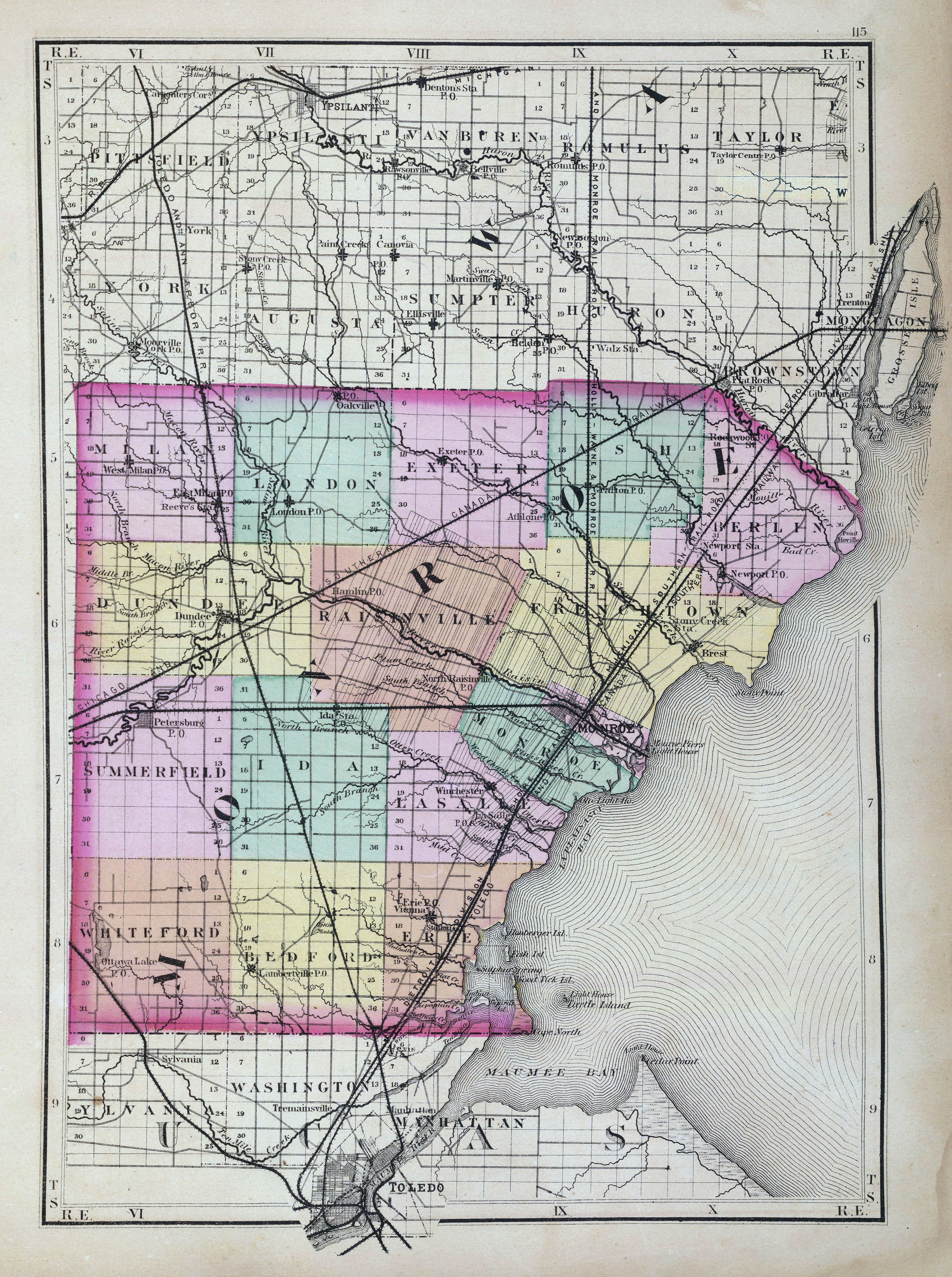 1873. The H.F. Walling Atlas. Please visit my physical visitations of these long gone places: Overnight Photo Trips Flickr data on 2011-08-29: Tags: Michigan County, H.F. Walling Map, David Rumsey Collection, 1873 Michigan License: CC BY 2.0 User: Marty Hogan